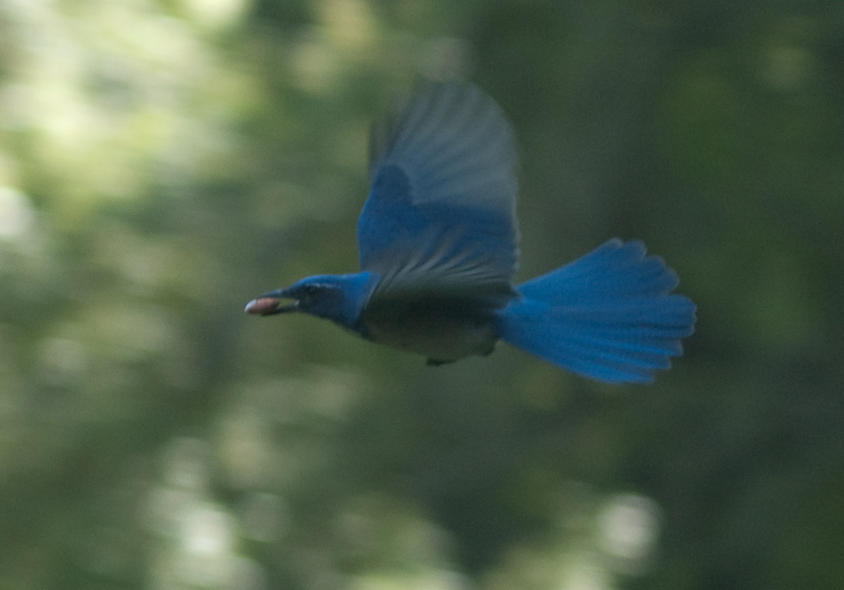 A Western Scrub Jay bird in flight carrying an almond on Alba Road in Ben Lomond, CA.